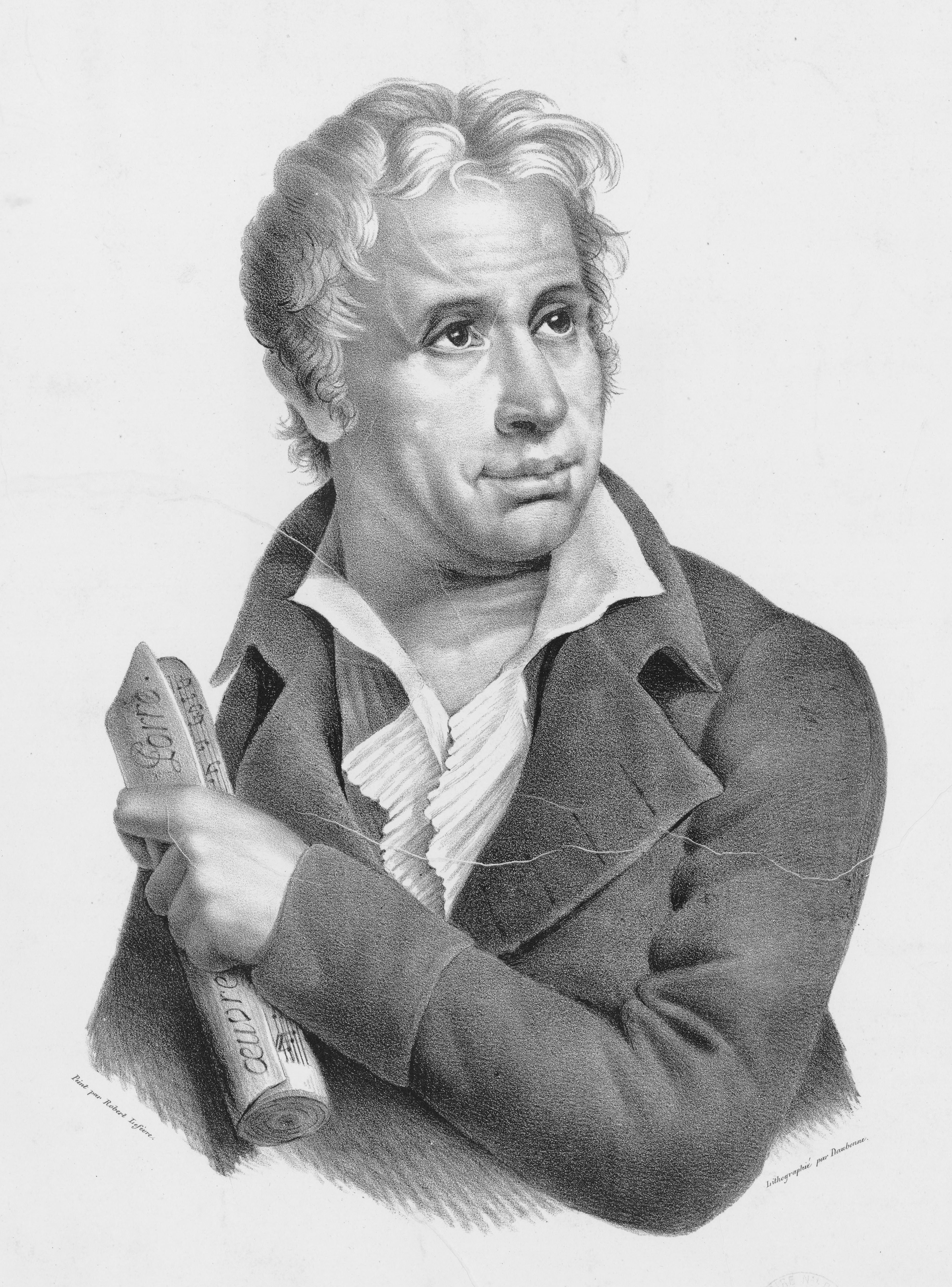 French classical guitarist, composer and music publisher Pierre-Jean Porro (1759-1831) after Robert Lefèvre (1755–1830).